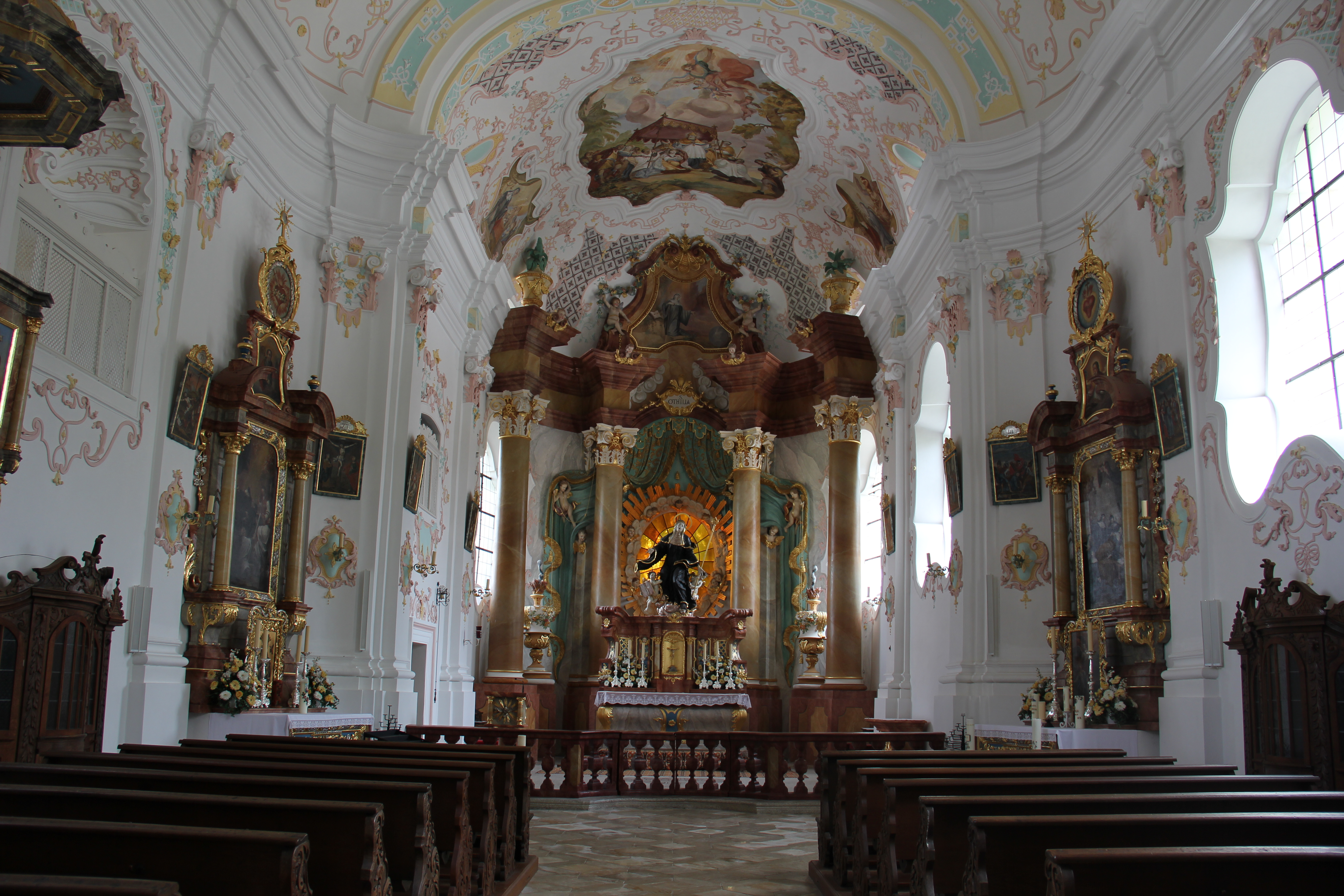 Pilgrimage church St. OdileNative nameWallfahrtskirche St. OttiliaLocationHellring, Lower Bavaria, GermanyCoordinates48° 51′ 3.57″ N, 12° 3′ 59.27″ E